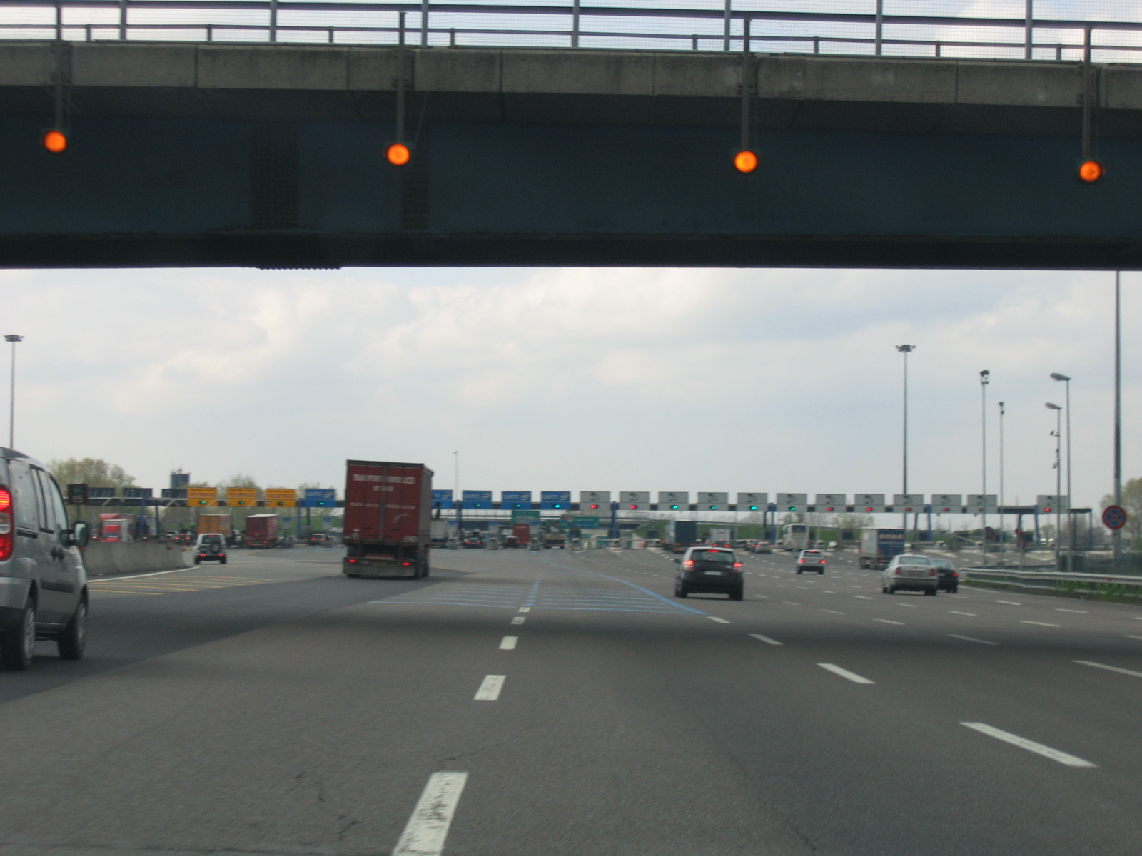 A1 highway, southern Milan exit Melegnano (end of A1).